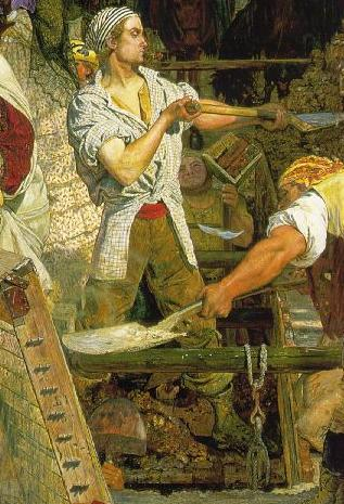 Close-up of the principal figure of a navvy from the painting Work.